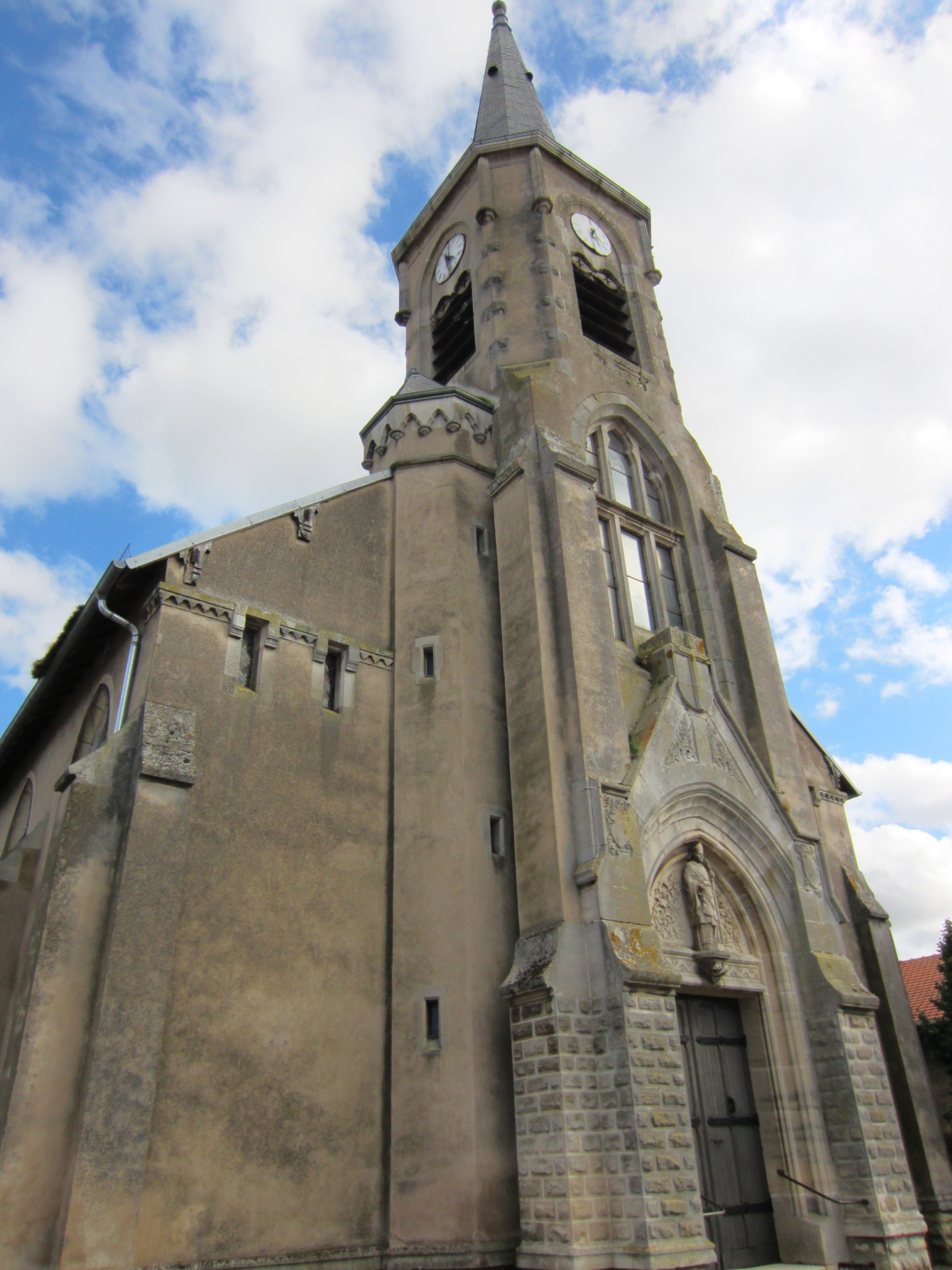 Description eglise Chambley eglise Chambley